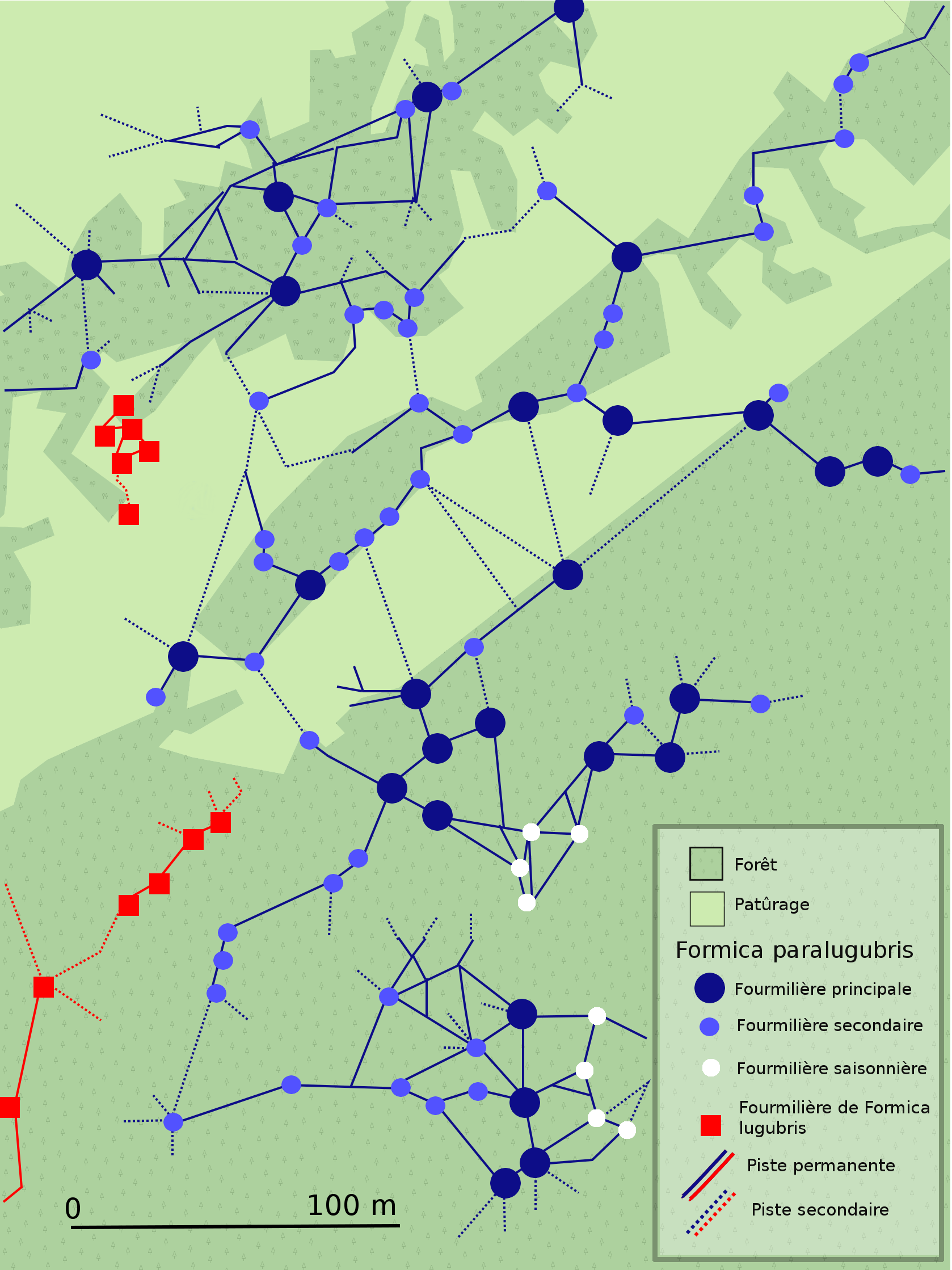 (and other languages) If you want a translation of this document, ask me, I will create it.